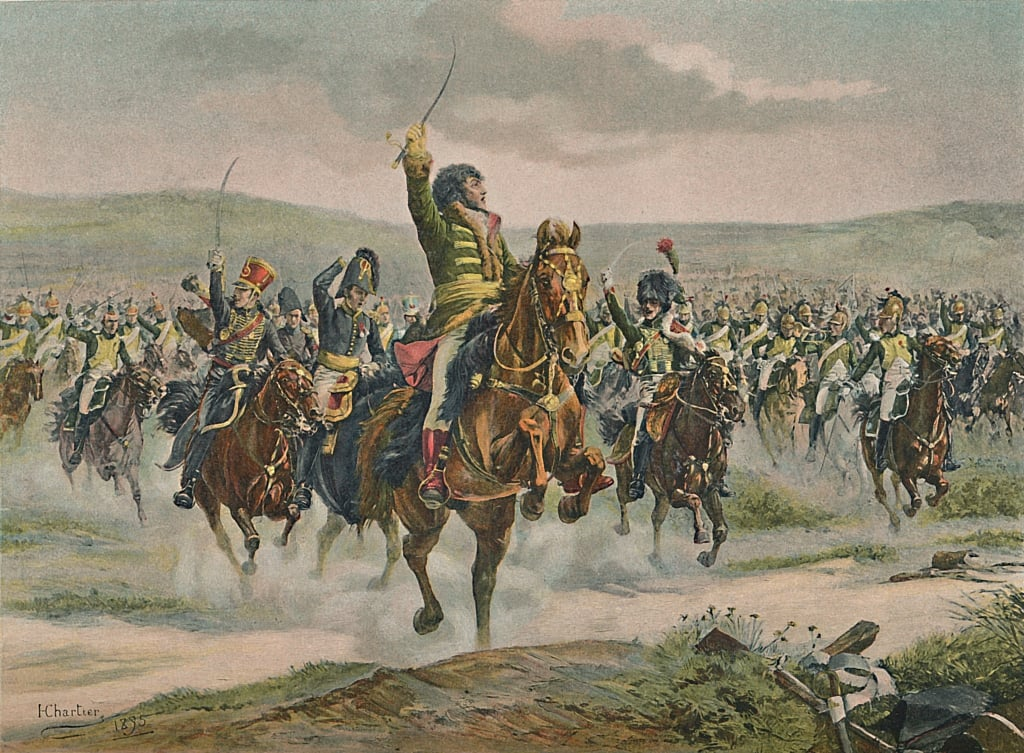 Marshal Murat, the most famous of many daring and charismatic French cavalry commanders of the era, leads a charge at the Battle of Jena, 14 October 1806.